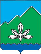 Dalnegorsk (Primorsky kray), coat of arms